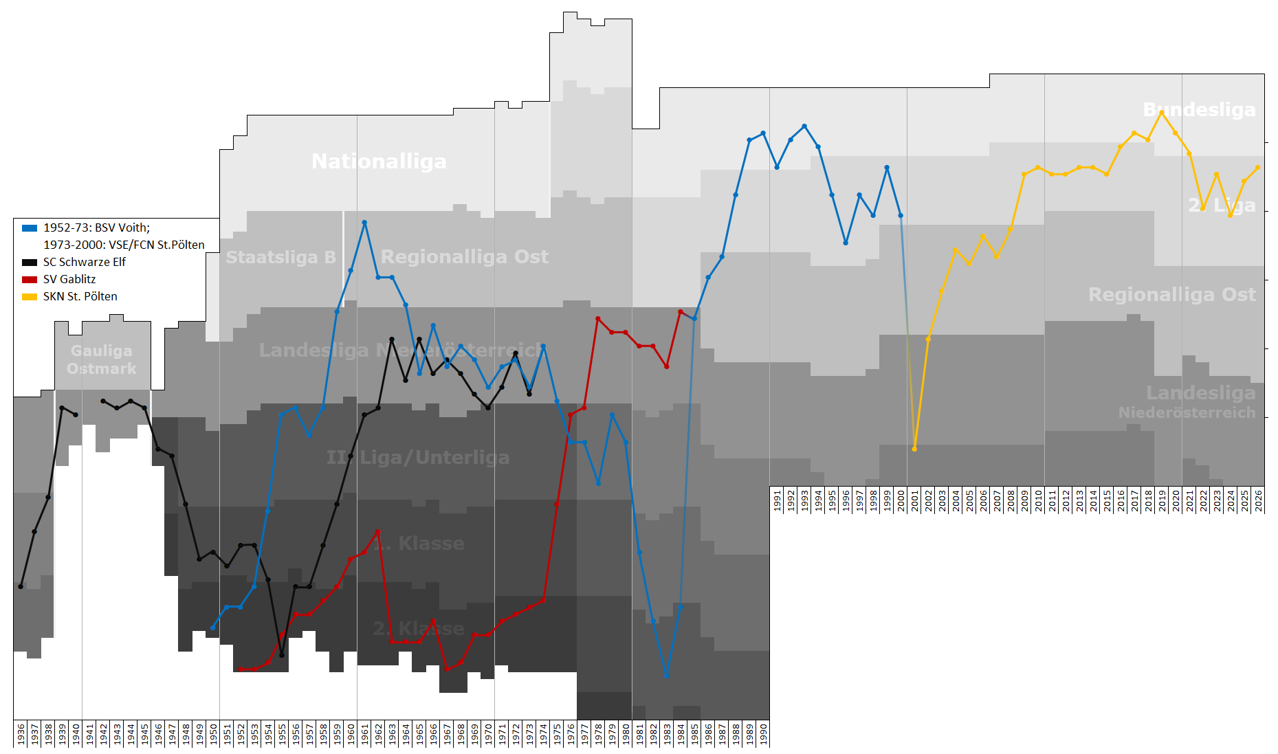 Chart of end-season table positions of St Pölten and its predecessors in the Austrian football league system. Data source: RSSSF, , regiowiki.at, noefv.at, wikipedia